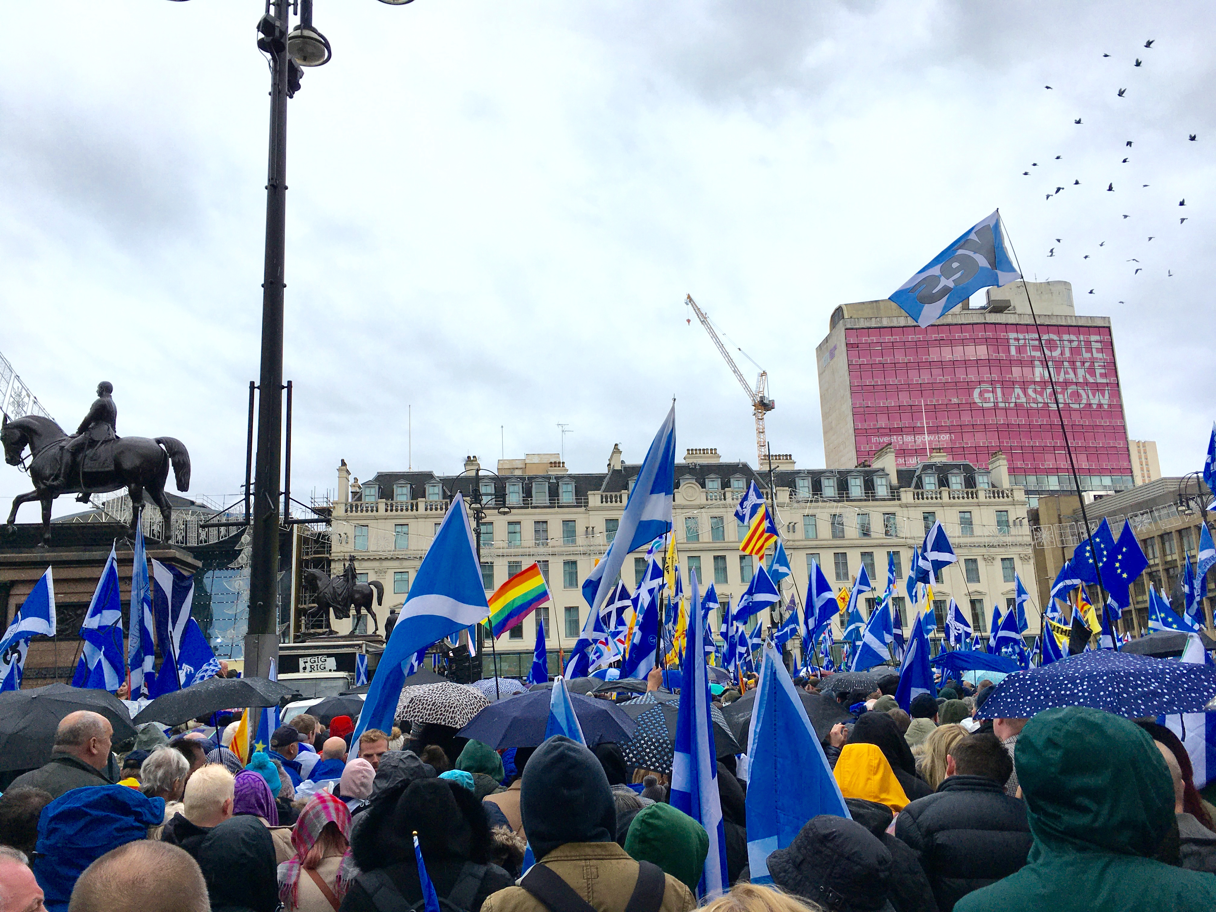 Scottish Independence Rally, George Square, Glasgow, 2019